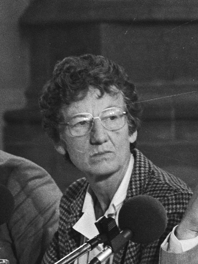 Jacqueline de Savornin Lohman (1985)